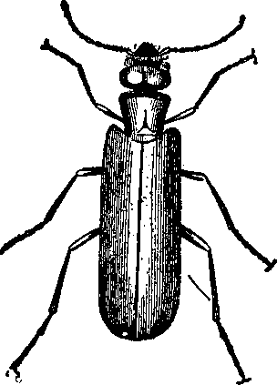 Lytta vesicatoria (Blister Beetle). Europe.